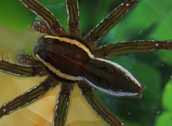 This photo was taken by the one who uploaded it, a Wikipedia editor. It was taken using the Olympus sp-800uz digital camera. It was touched up by using Adobe Photoshop CS2. It was taken in June 6 2011. The specimen was unharmed and was found in Ontario Canada.